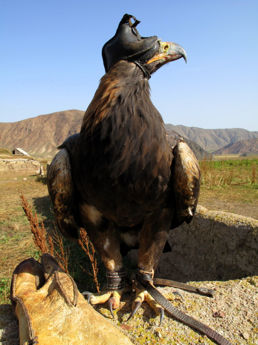 Berkut awaits the hunt, Kyrgyzstan